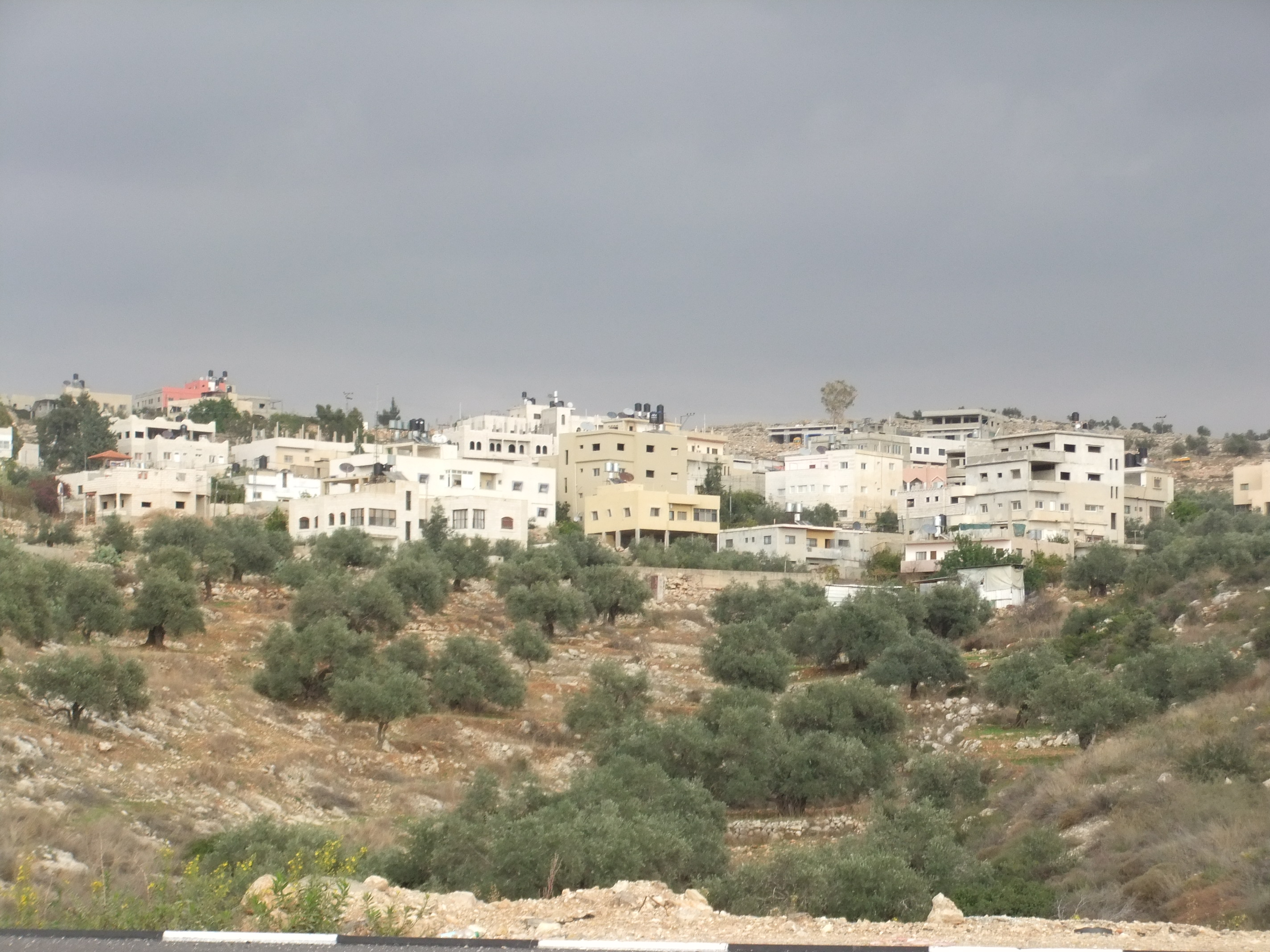 Deir Qaddis from the road on the west